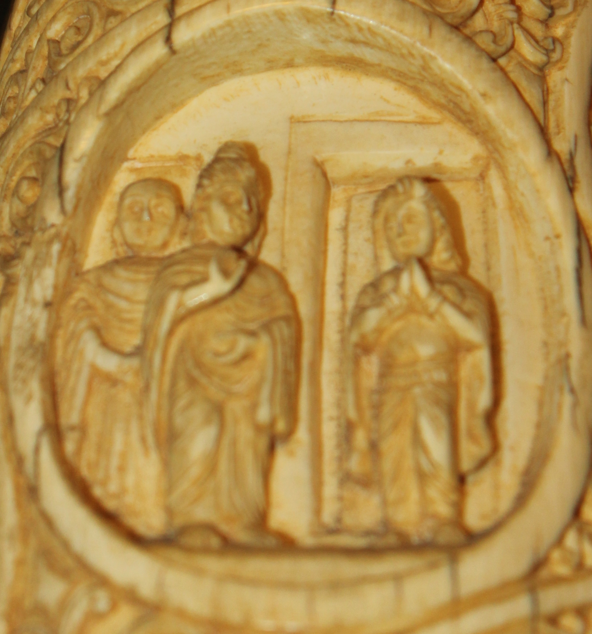 Roundel 36: Amrapali, the courtesan, greets the Buddha. Carving on ivory. Exhibit at the National Museum in New Delhi, India.